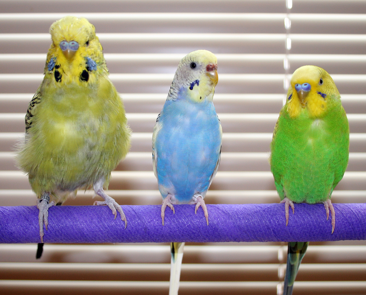 Budgerigars, Melopsittacus undulatus. Three on a perch. The bird on the left is an 'English Budgie', the result of generations of selective breeding by humans for desirable traits including size - whilst the other two birds exhibit the body form (but not plumage colour) of wild Budgerigars and are sometimes known as 'wild-type', or 'American Parakeets' in aviculture.